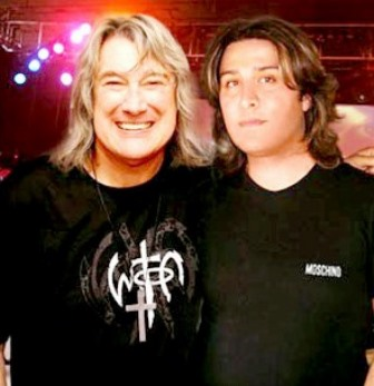 Davi Wornel with John Schlitt